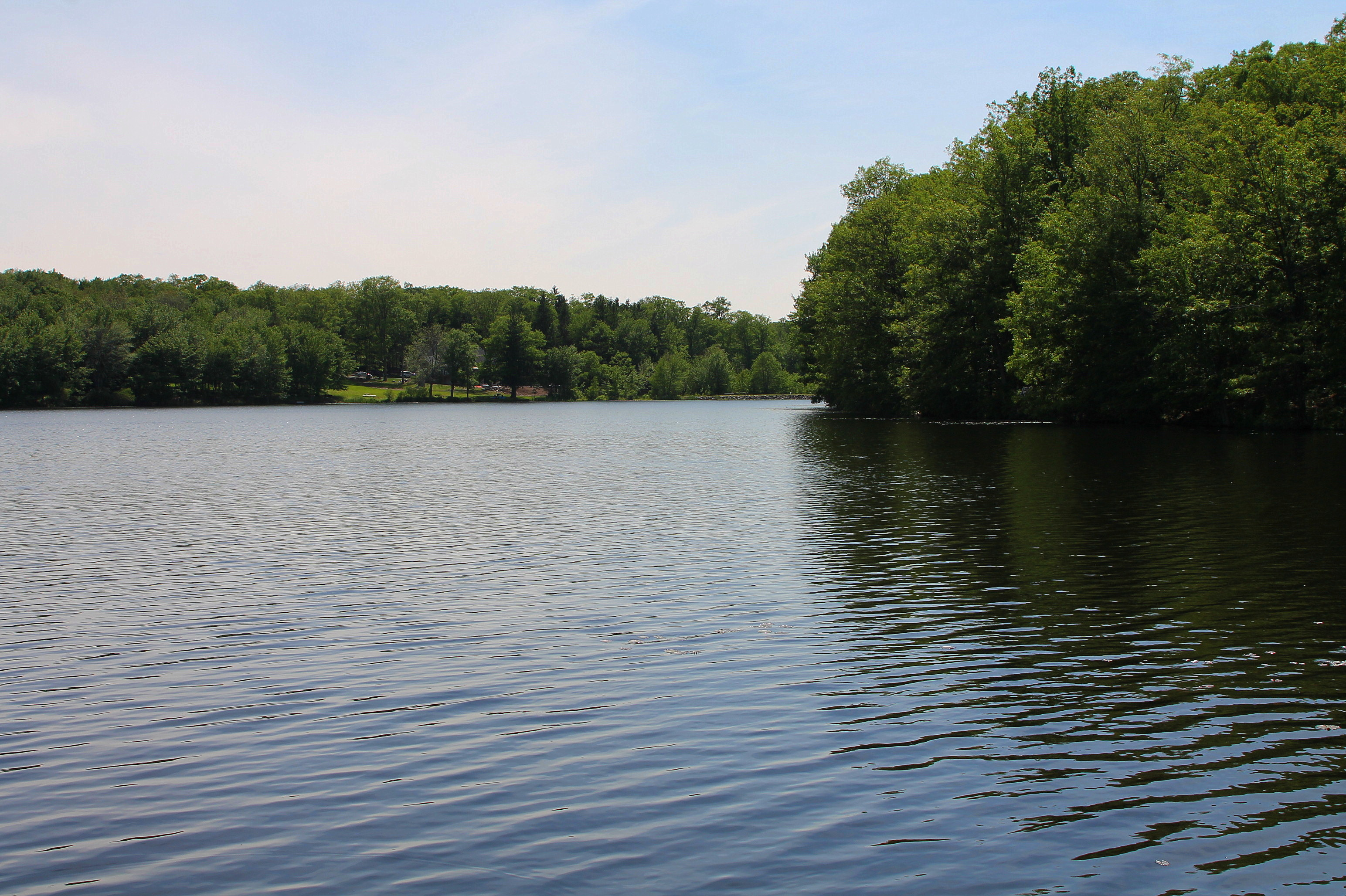 View of The Ice Ponds in Rice Township, Luzerne County, PA